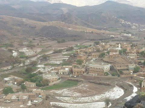 Tariadah Alrriashia